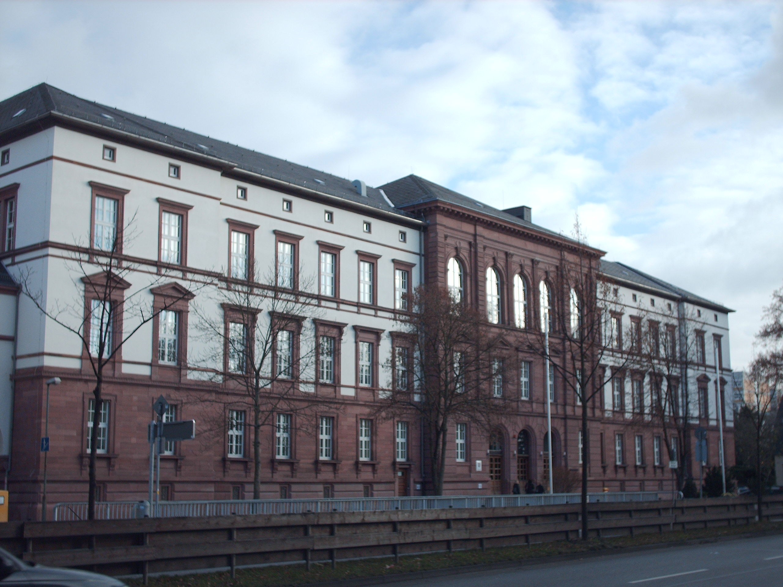 Courthouse Landgericht Gießen, Gießen, Germany check usage